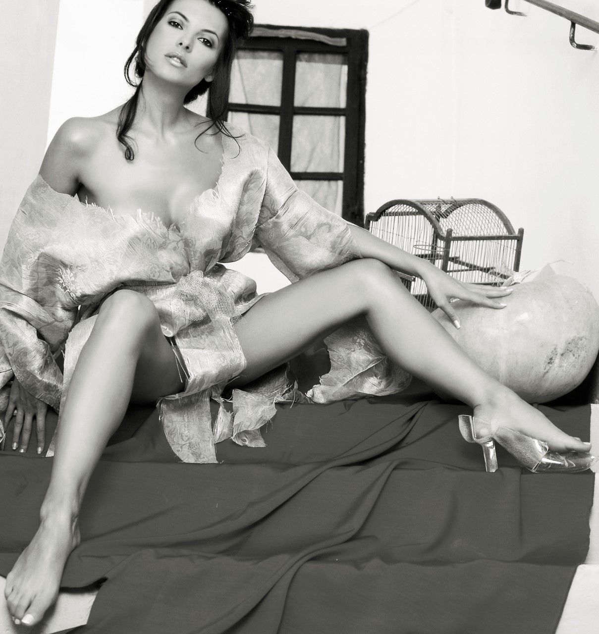 The Italian television soubrette and presenter Miriana Trevisan in a 2004 glamour shot